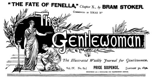 The Gentlewoman 1892 January 30 advertising Bram Stoker novel serialisation